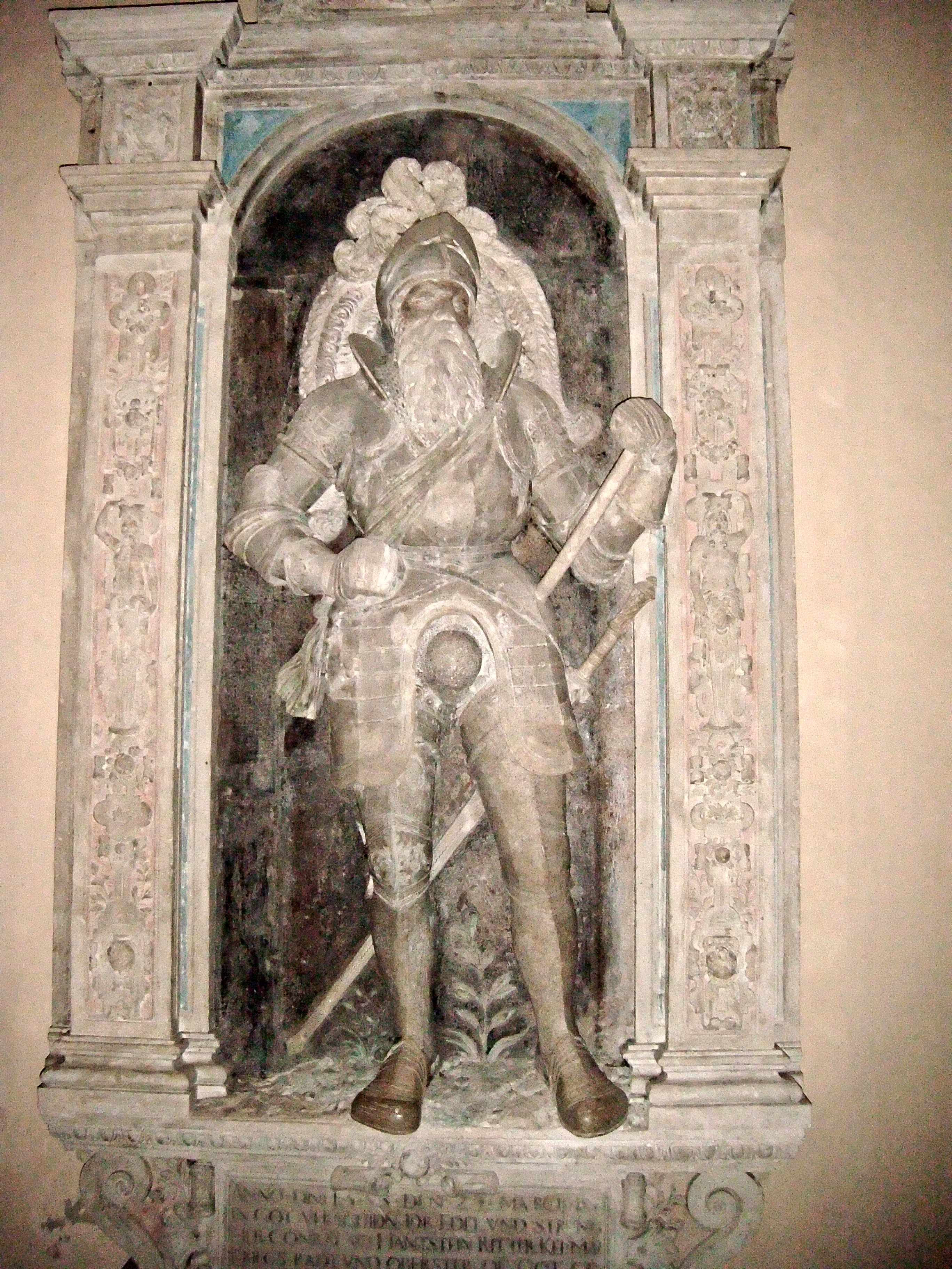 Oppenheim Katharinenkirche Epitaph des kaiserlichen Offiziers Conrad von Hanstein († 1553)